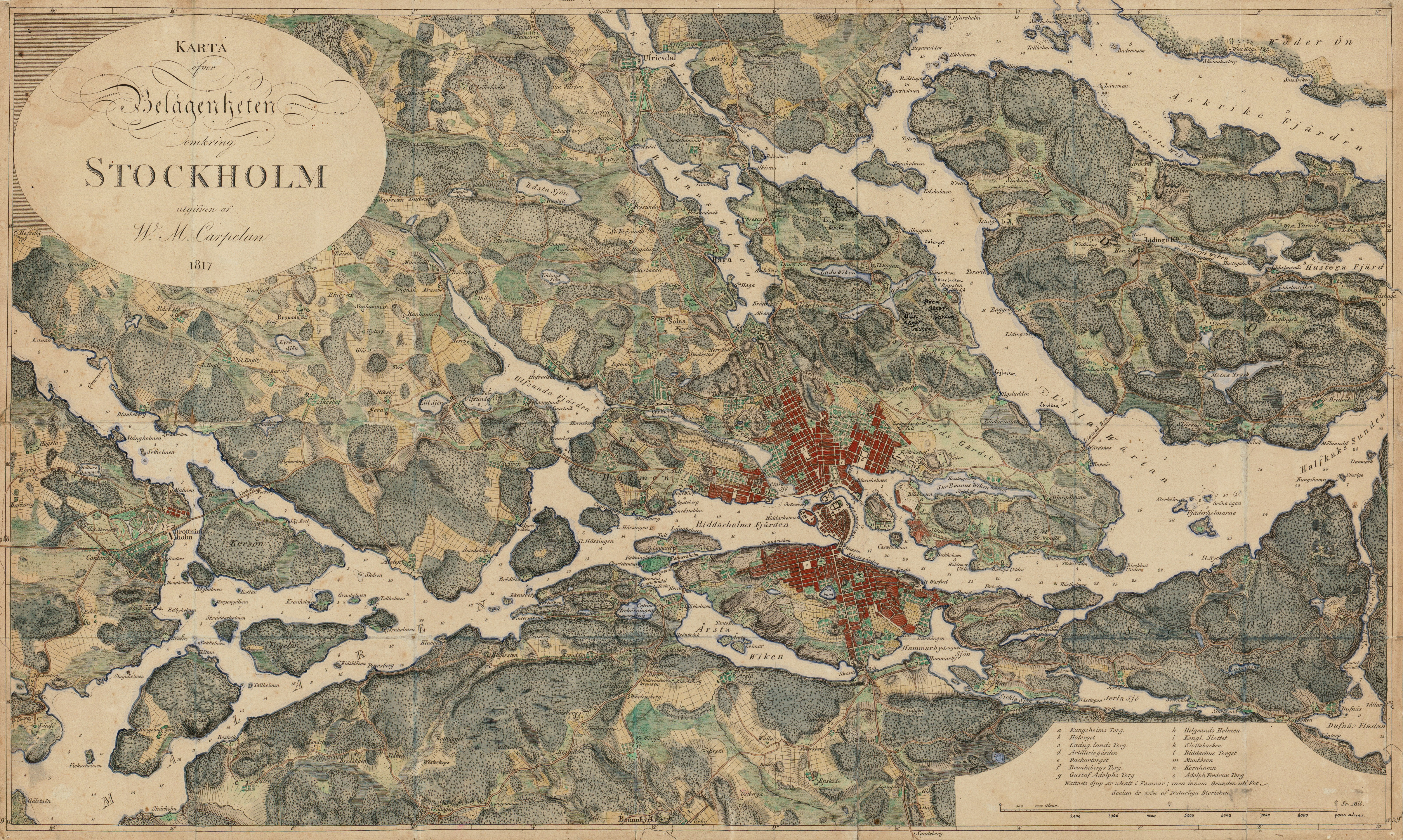 KARTA[Stockholm med omgivningar 1817] Karta öfver Belägenheten omkring Stockholm / utgifven af W. M. Carpelan 1817Kartan visar från Ulriksdal i norr till Brännkyrka i söder, från Drottningholm/Lovön i väster till Skurusundet i öster. Finns även i Stockholmskällan: stadsmuseum, Sweden